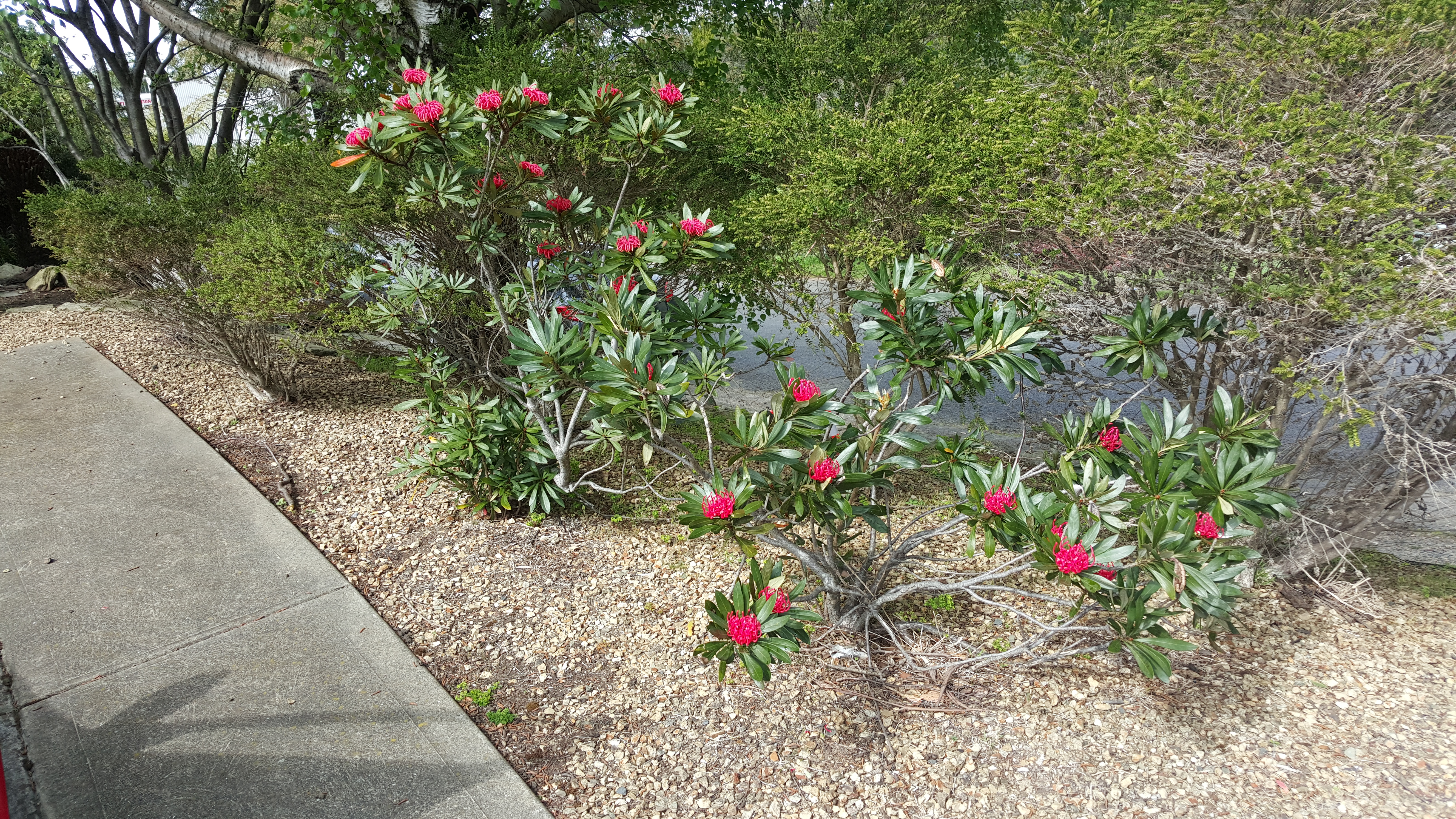 telopea truncata cult. Mt Wellington